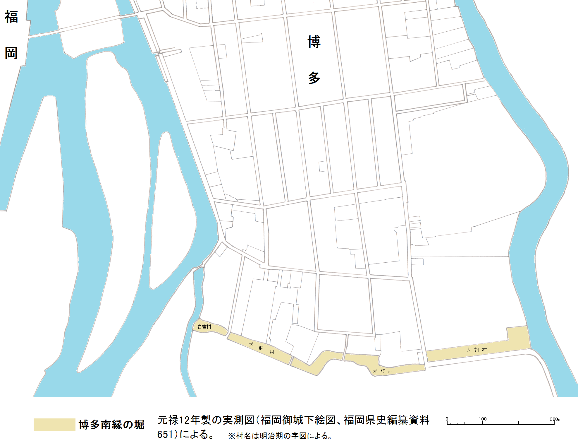 Southern moat of Hakata in 1699